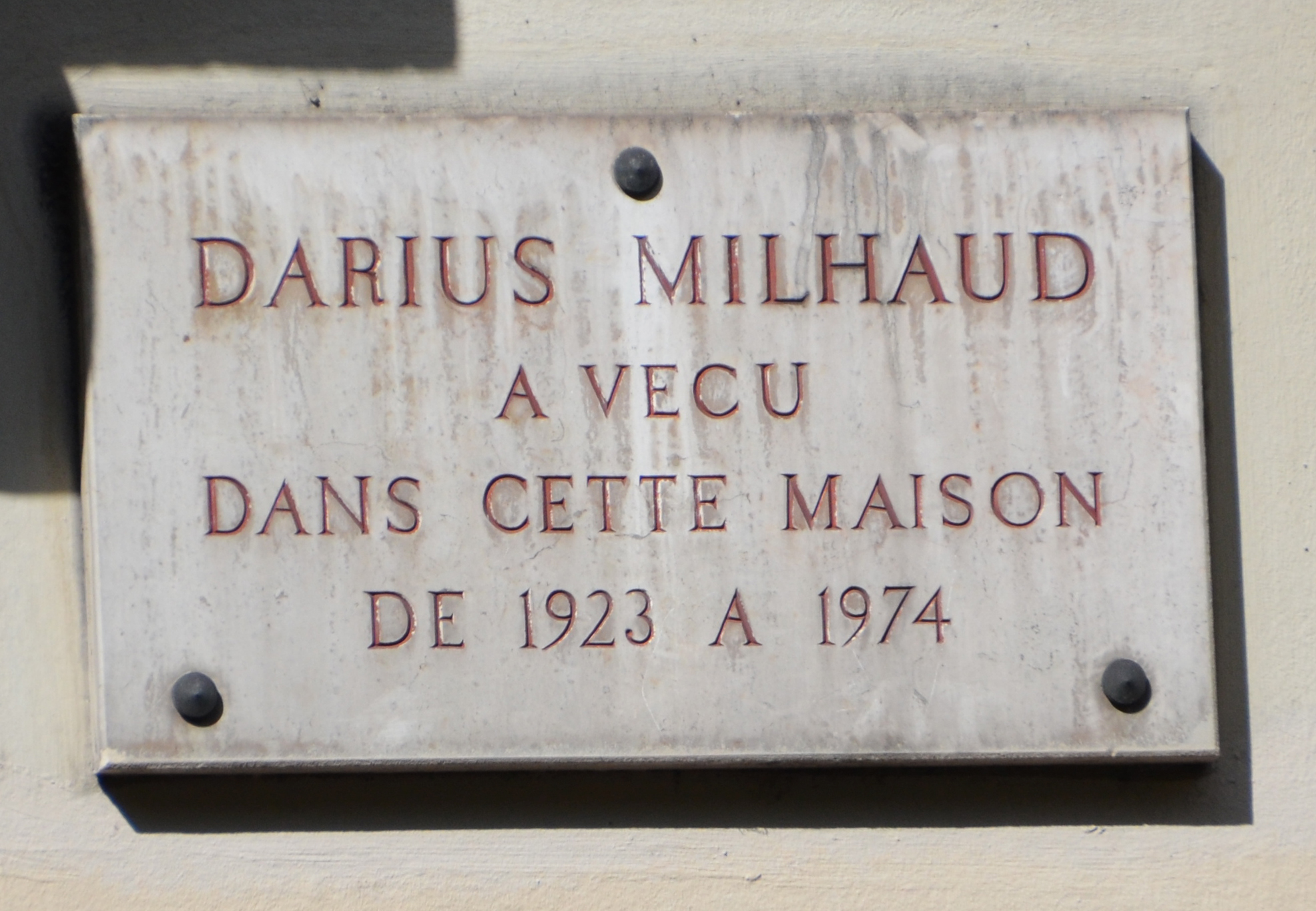 Read more about this composer and teacher here